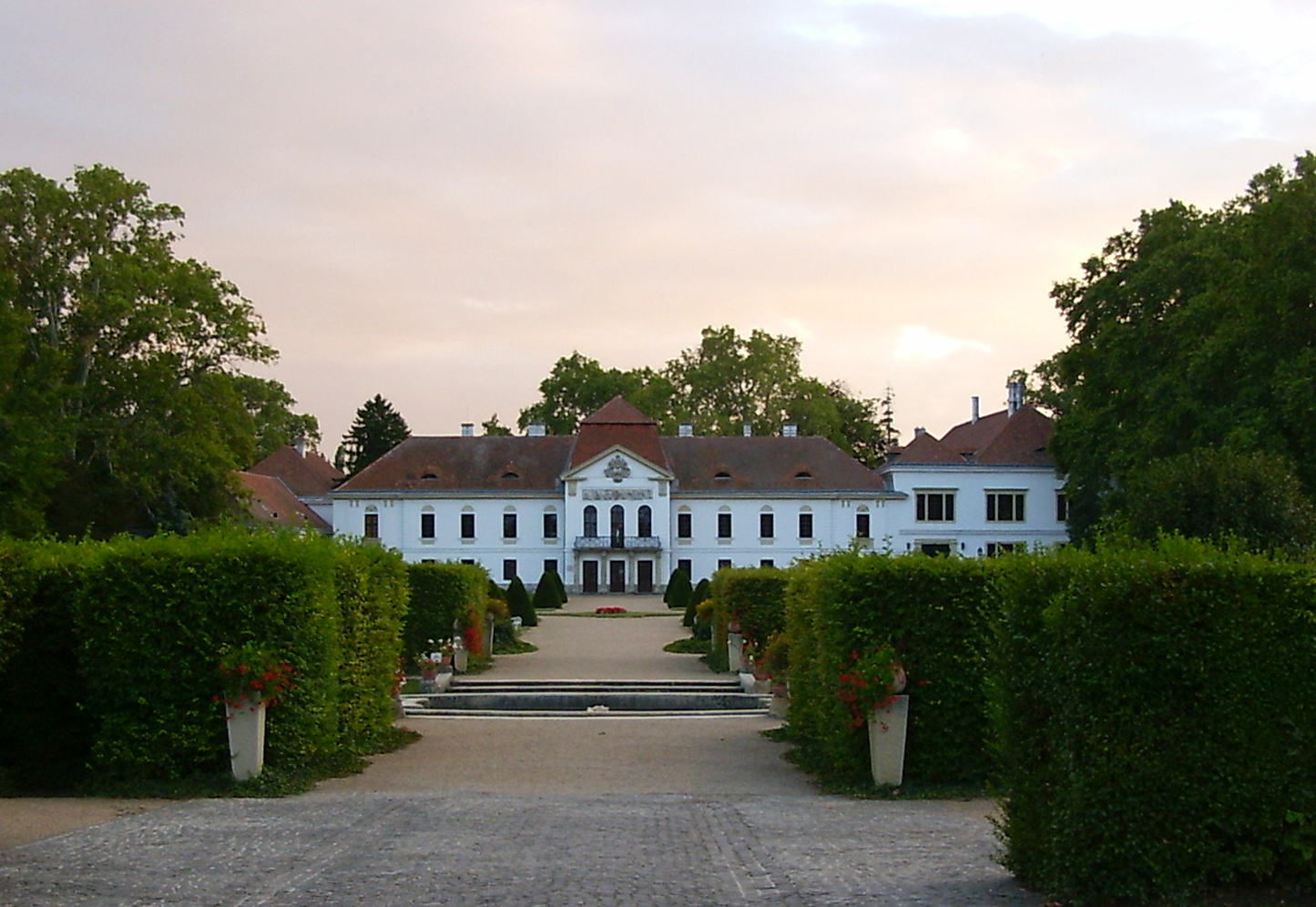 Castle of NagycenkObject location47° 36′ 30.72″ N, 16° 42′ 21.66″ E This is a photo of a monument in Hungary. Identifier: 4604